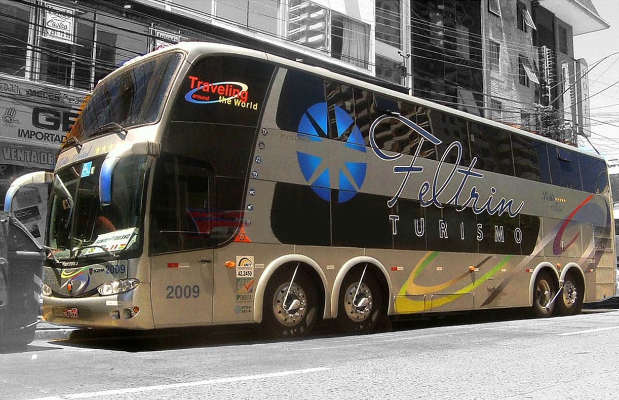 Marcopolo paradiso 1800DD Scania K-420 (8x2) in Chile